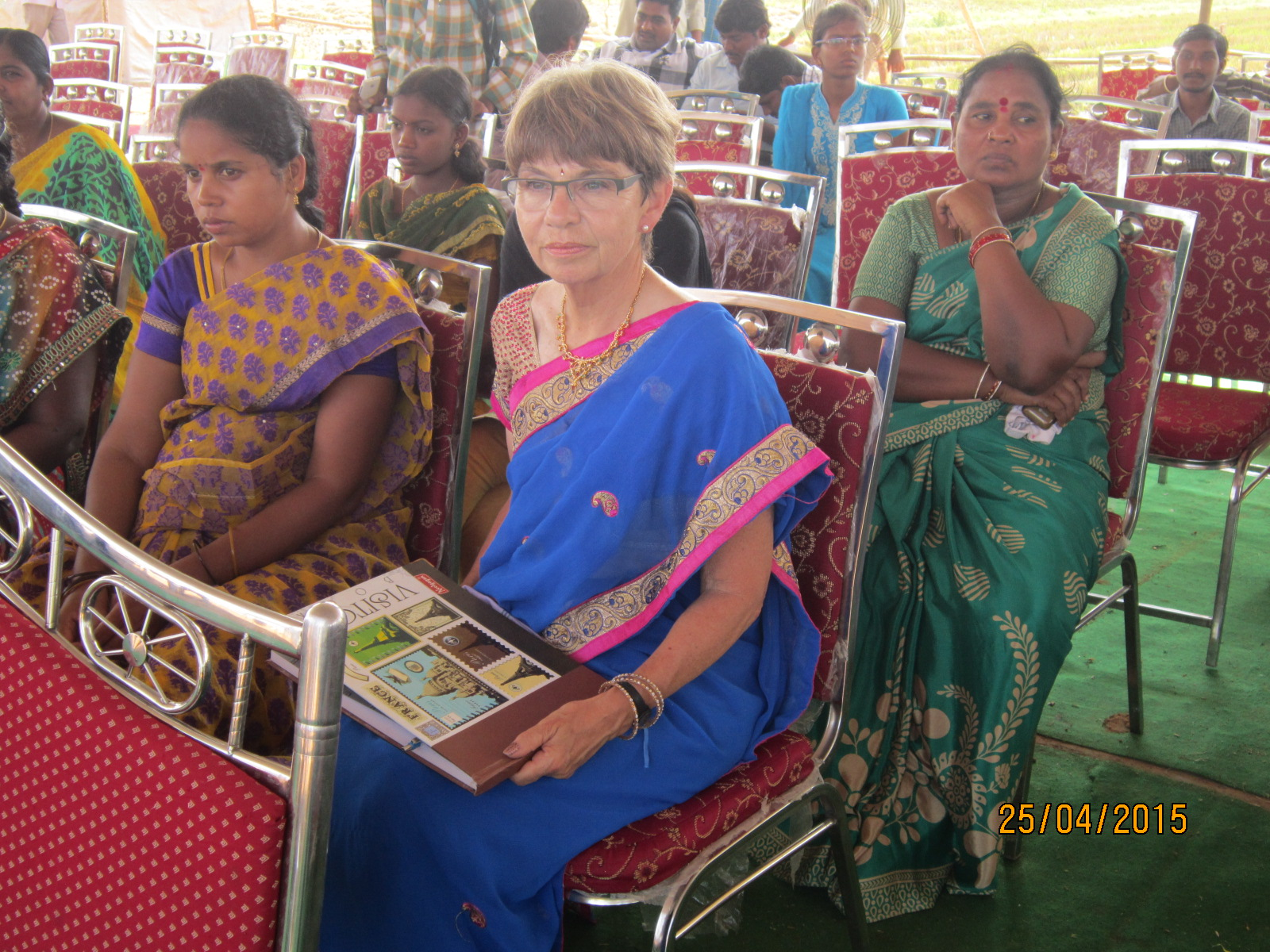 mastan Babu friend,mountineer attended his funneral in india